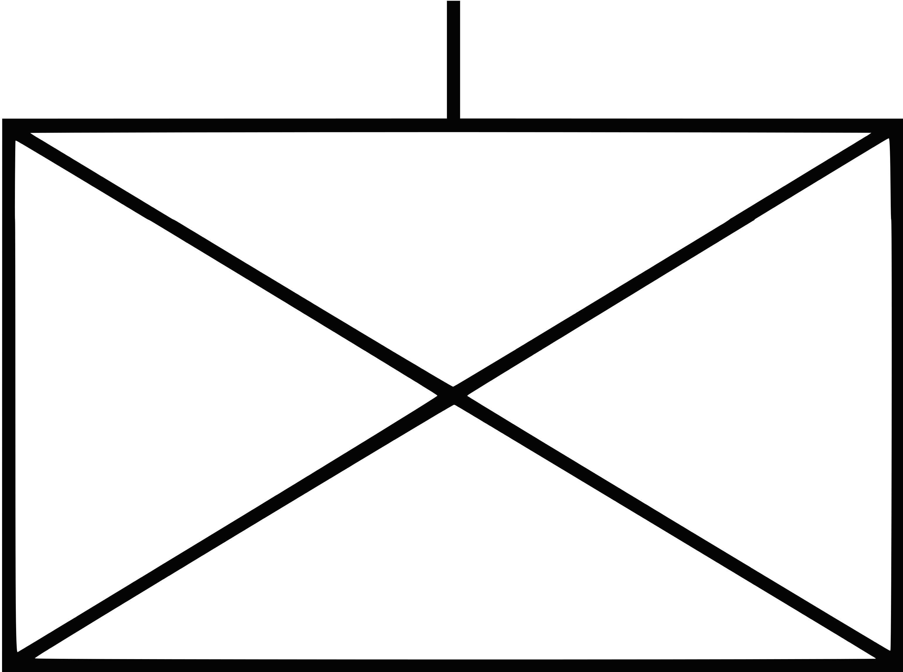 Company: NATO Joint Military Symbology